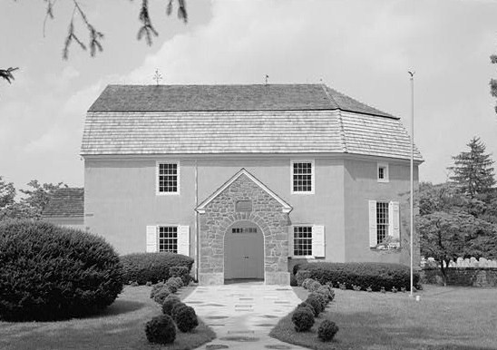 Augustus Lutheran Church, 717 West Main Street, Trappe (Montgomery County, Pennsylvaina)(cropped)